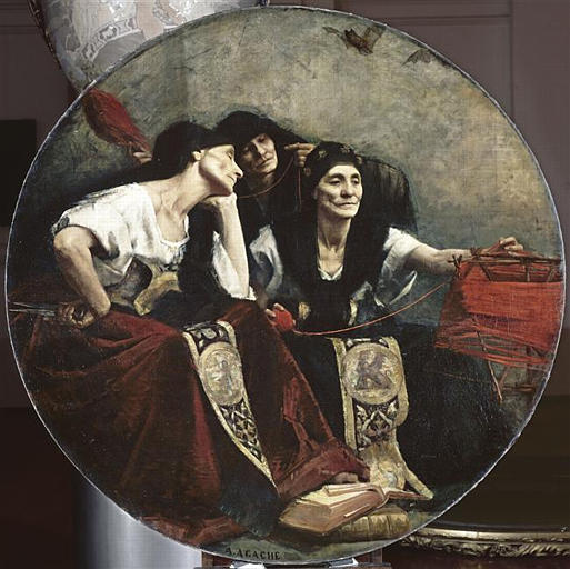 On the right in this image, Clotho (Κλωθώ), the Greek word for spinner, is the youngest of the Moirae. Her position is first of Three Fates, as it is Clotho who spins the threads of life with her distaff.